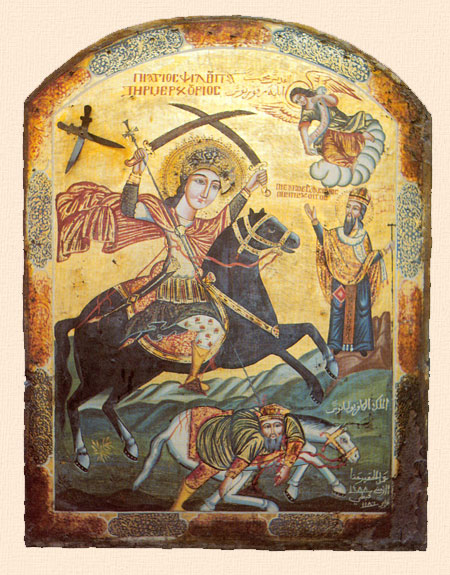 Icon depicting Saint Mercurius killing Roman Emperor Flavius Claudius Julianus